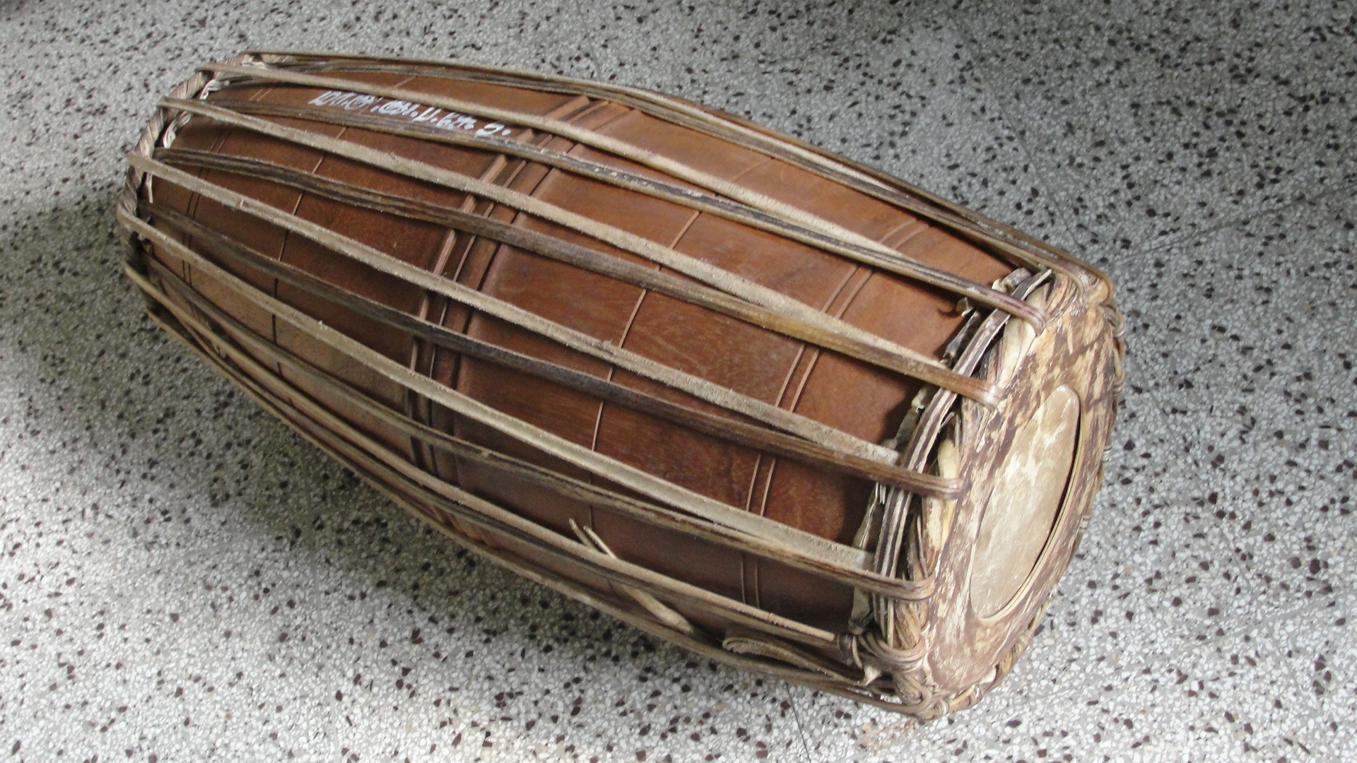 A Miruthangam. One of the traditional music instrument of the Tamils